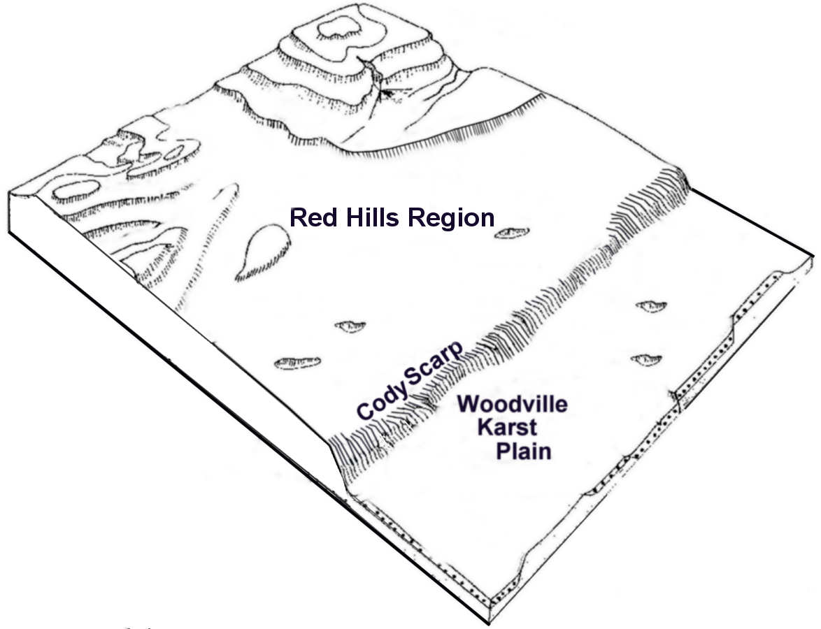 Cody Scarp cutaway diagram